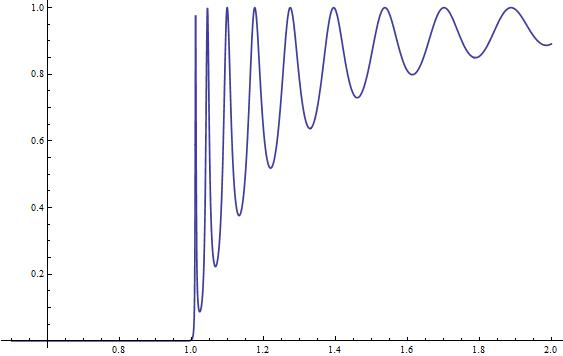 Resonance peaks as a function of incident Energy in case of scattering from 1D potentials for shape factor 30